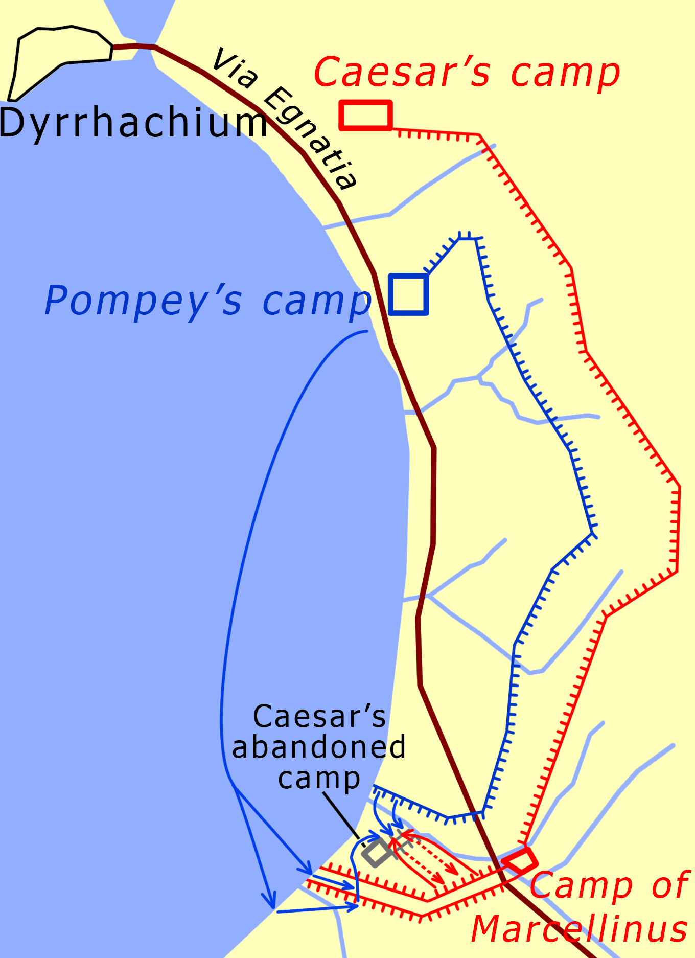 Battle of Dyrrhachium, 48 BC, English version